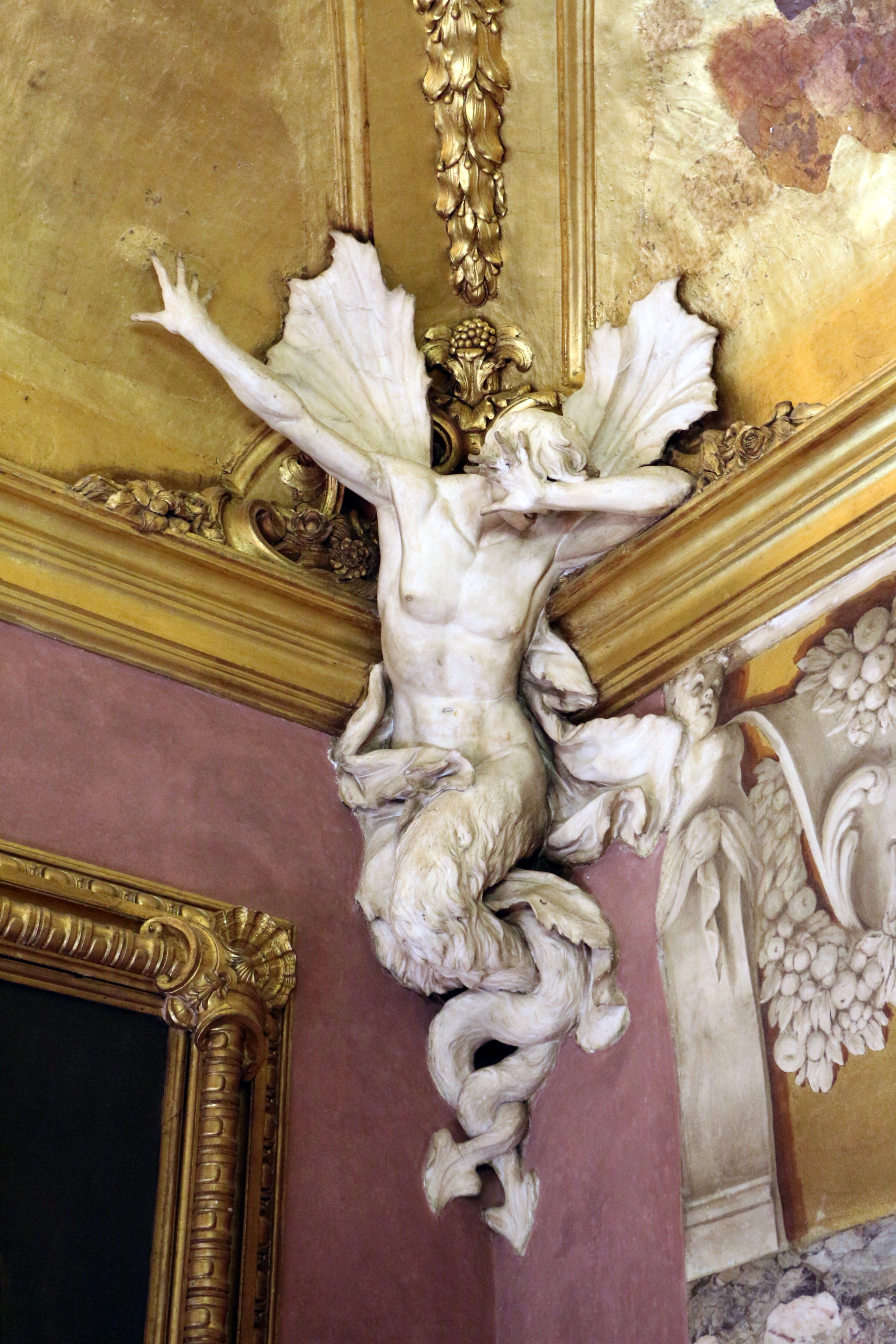 Sala della Guerra in Palazzo Fenzi